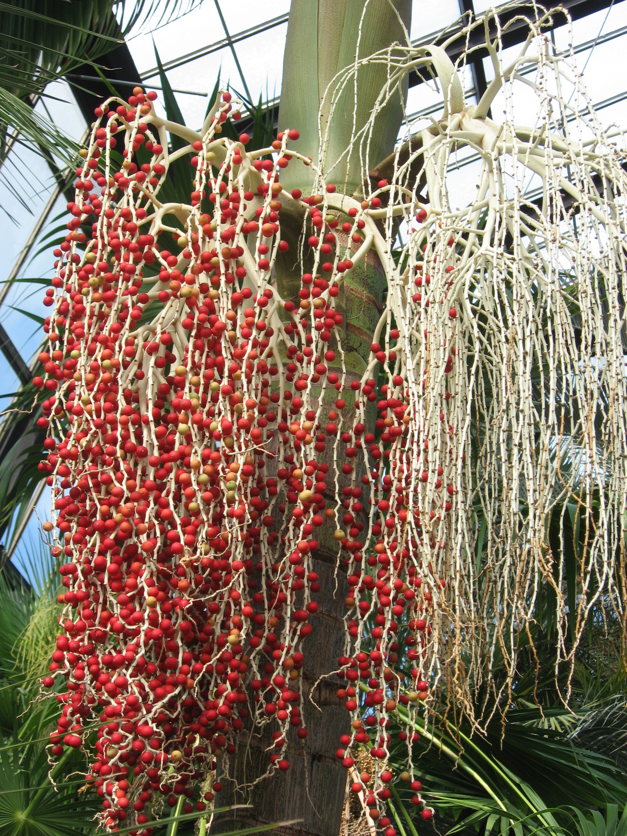 A picture of the fruit of Butia paraguayensis.